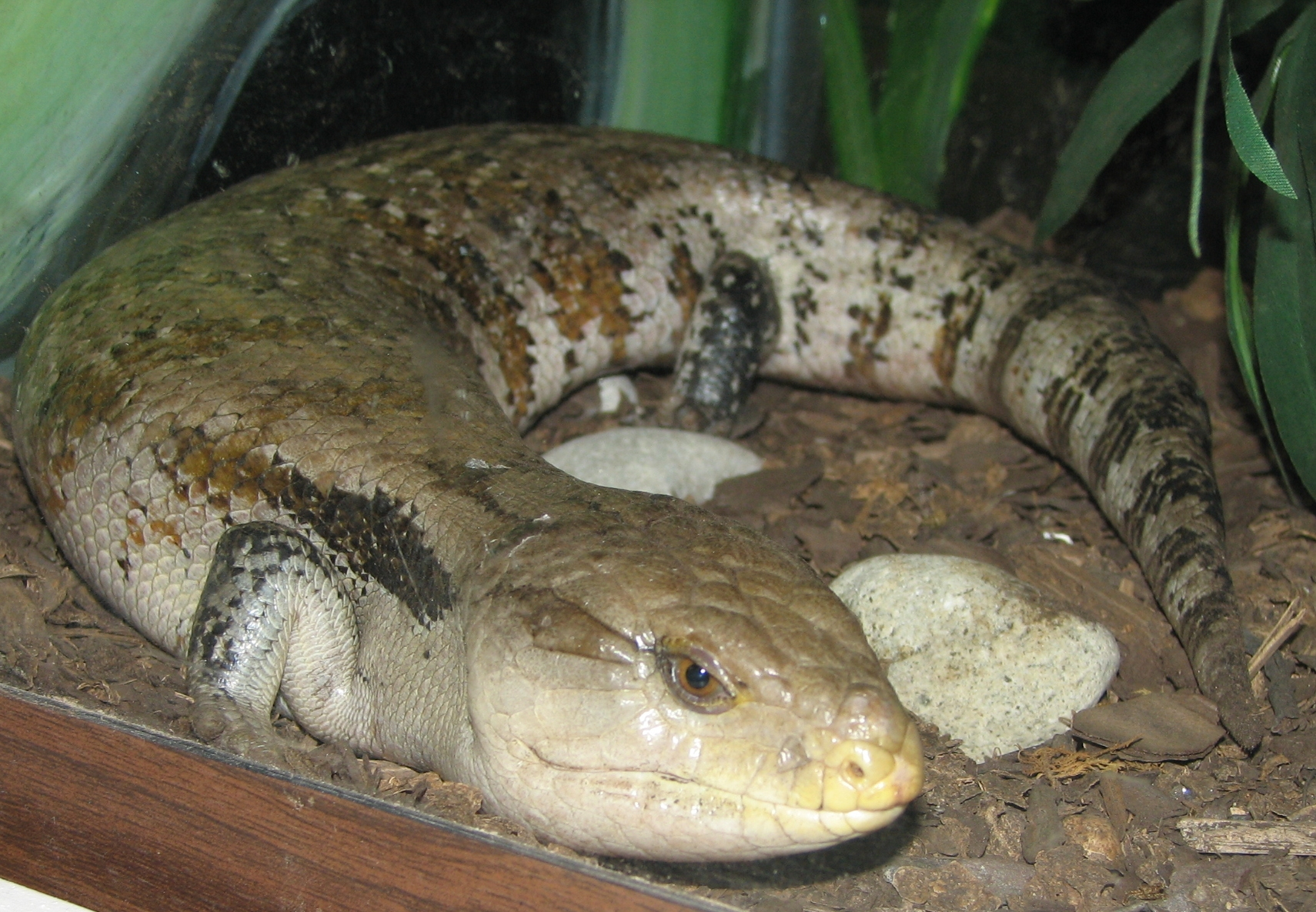 Blue Tongued Skink - Tiliqua gigas